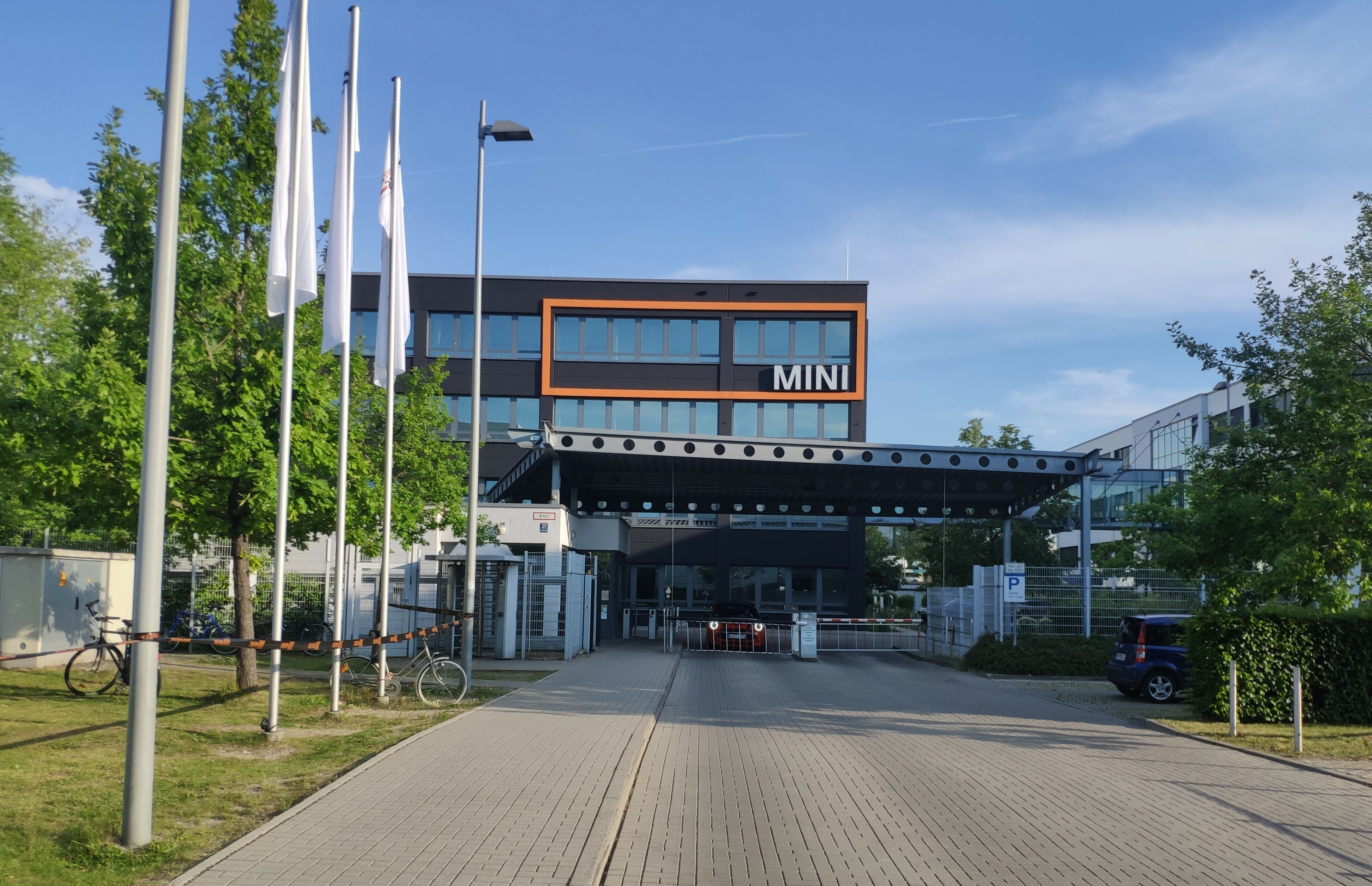 Mini Munich